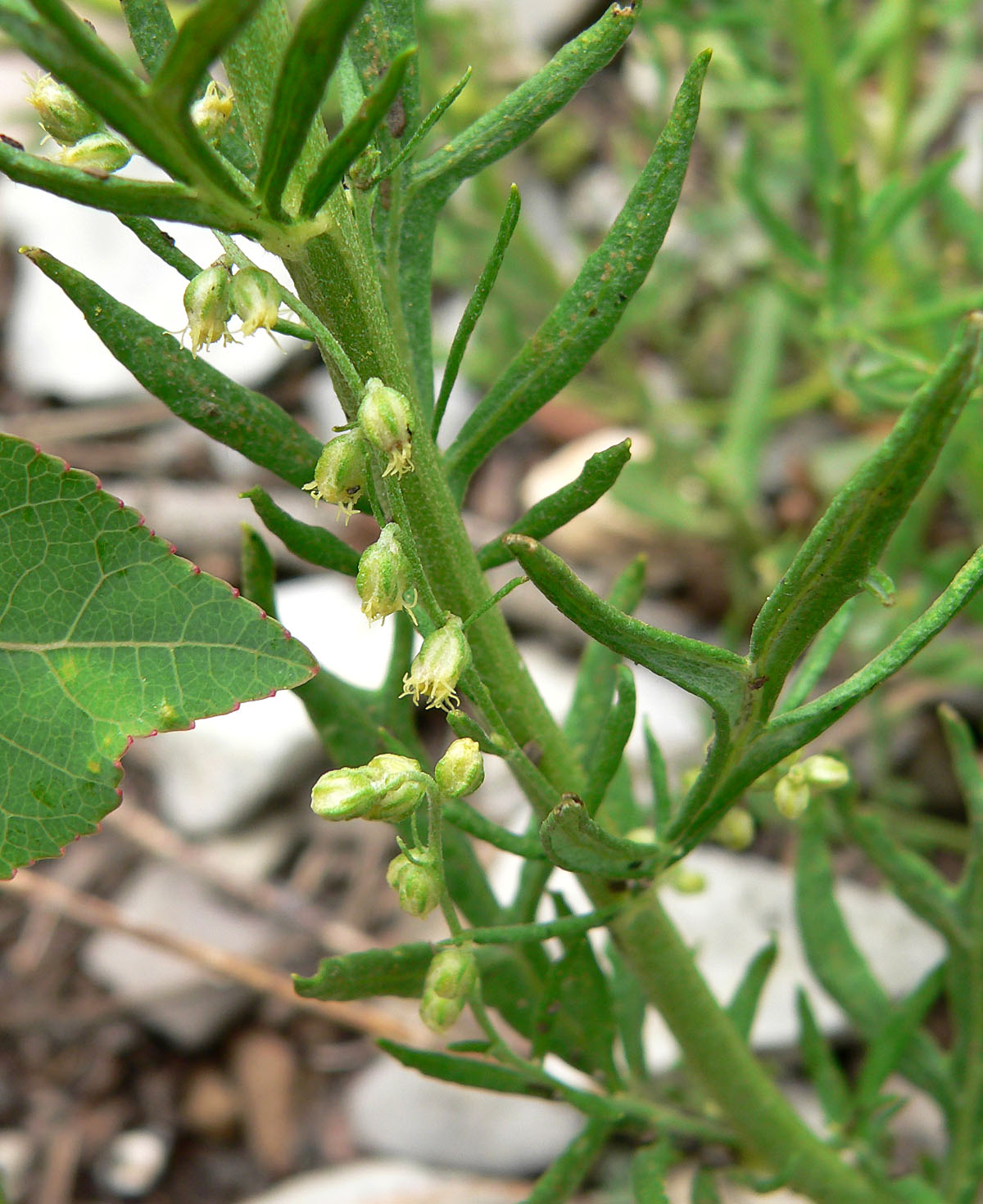 Artemisia michauxiana alongside the South Loop trail, Kyle Canyon, Spring Mountains, southern Nevada (elev. about 2500 m)